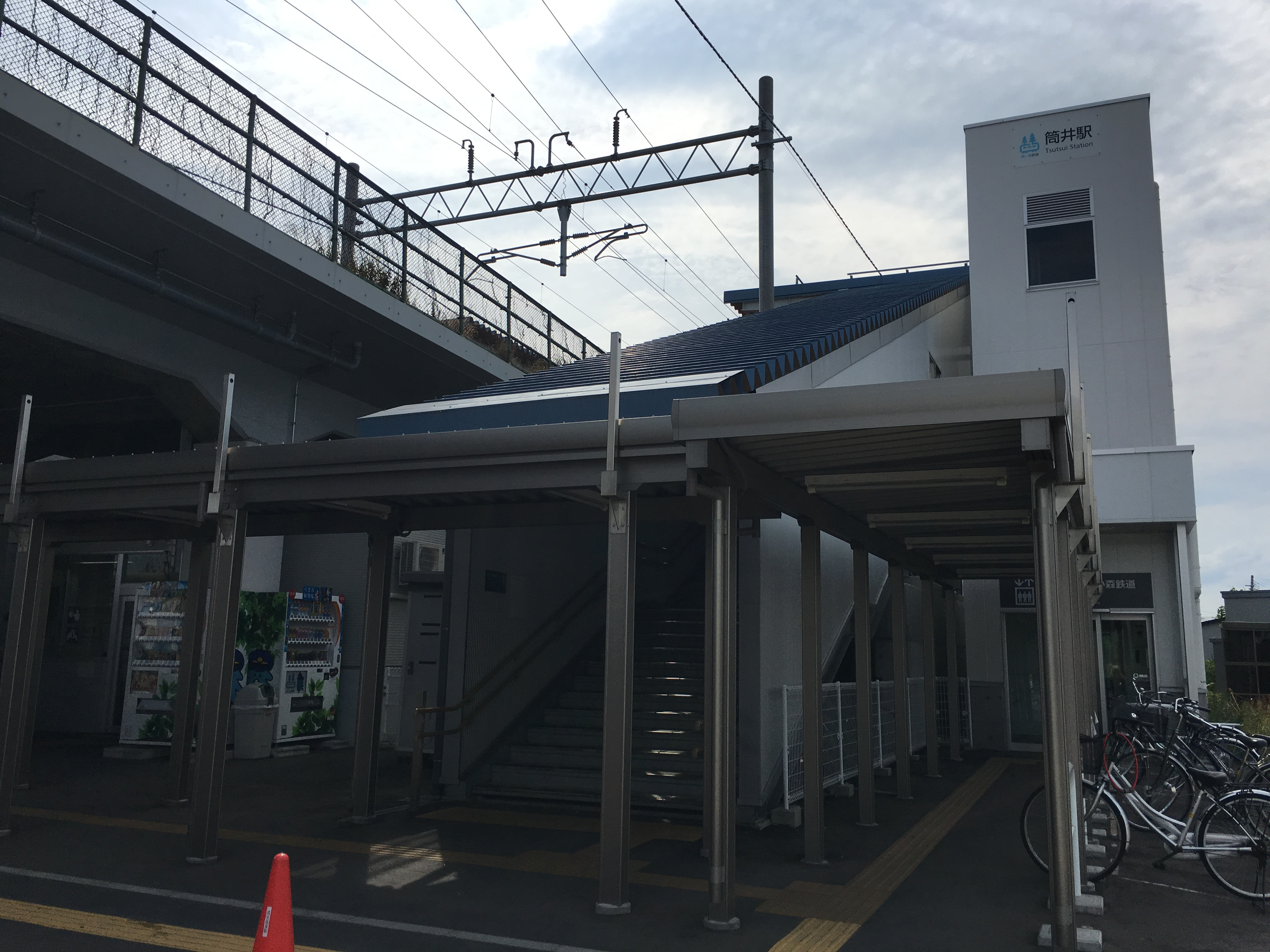 Tsutsui station